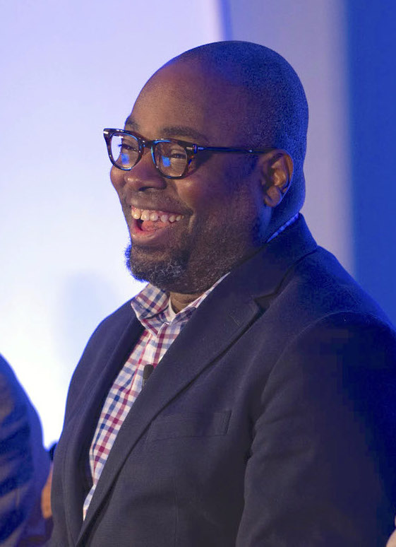 Stephen Henderson, Editorial Page Editor for the Detroit Free Press, during the Knight Foundation's Media Learning Seminar 2015, held at the Biscayne Bay Marriott Hotel in Miami